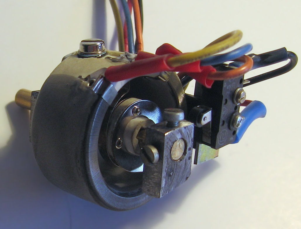 Wire potentiometer with switch